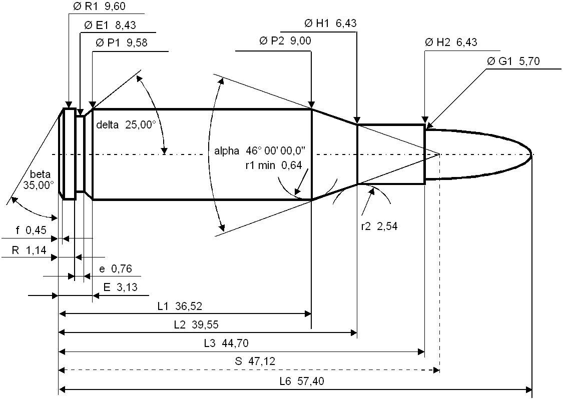 .223 Remington maximum C.I.P. cartridge dimensions. All sizes in millimeters (mm).